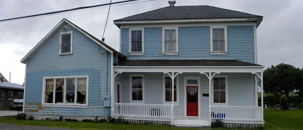 The Table Bluff Hotel operated by Seth Kinman in the town of Table Bluff, Humboldt County, California.